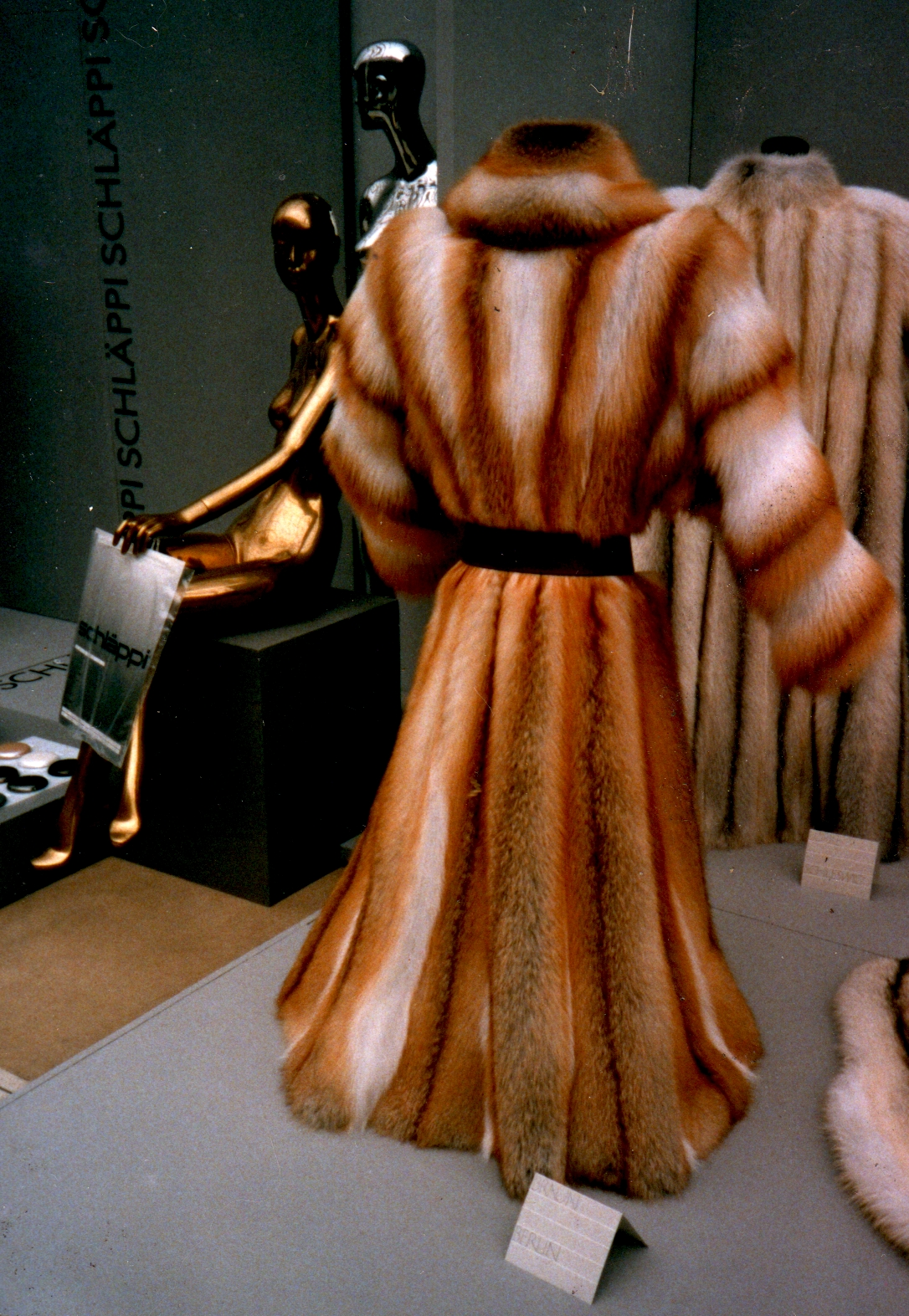 Coat from (Mongolian?) red fox fur-skins